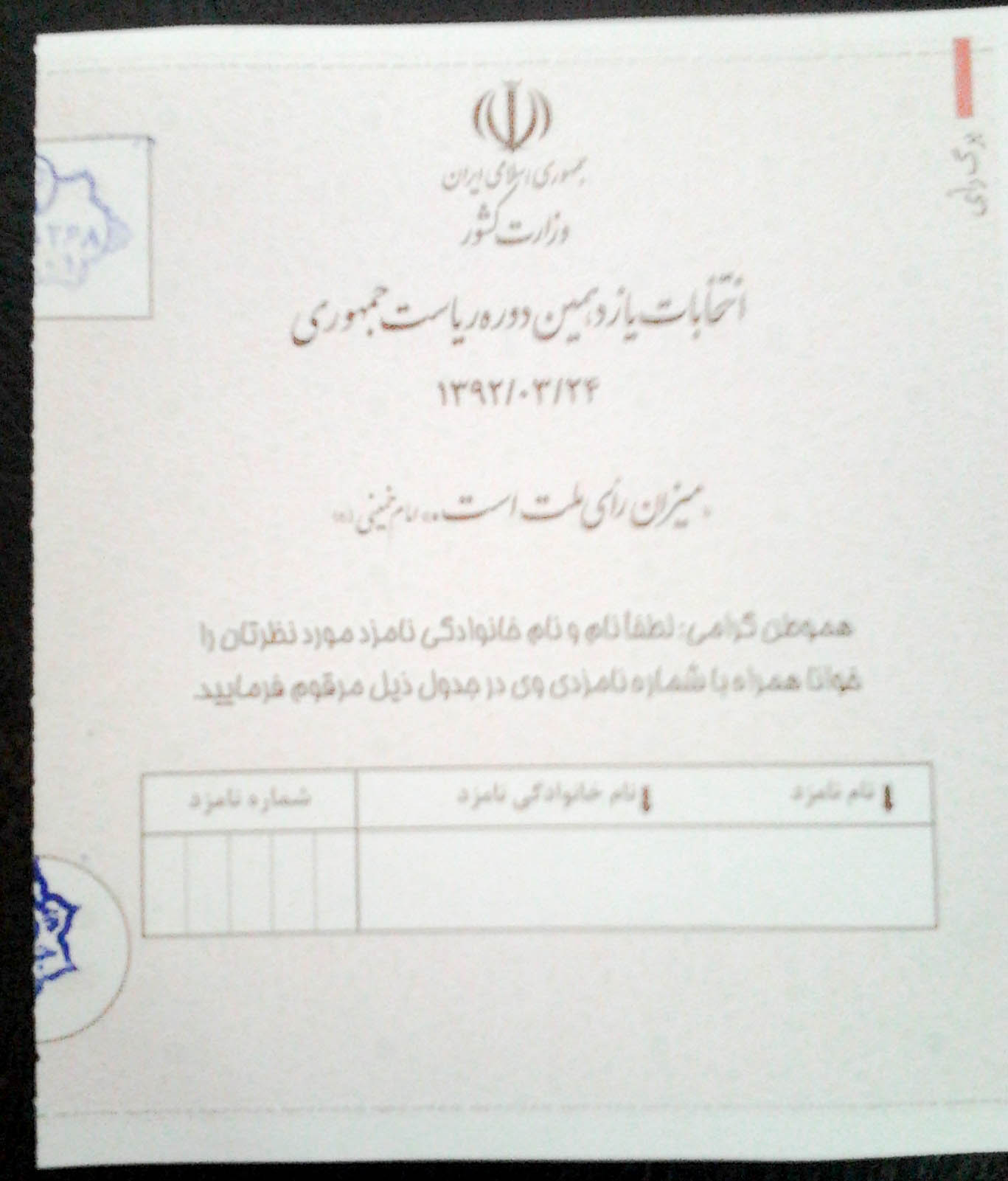 Iran's presidential election ballot for 2013